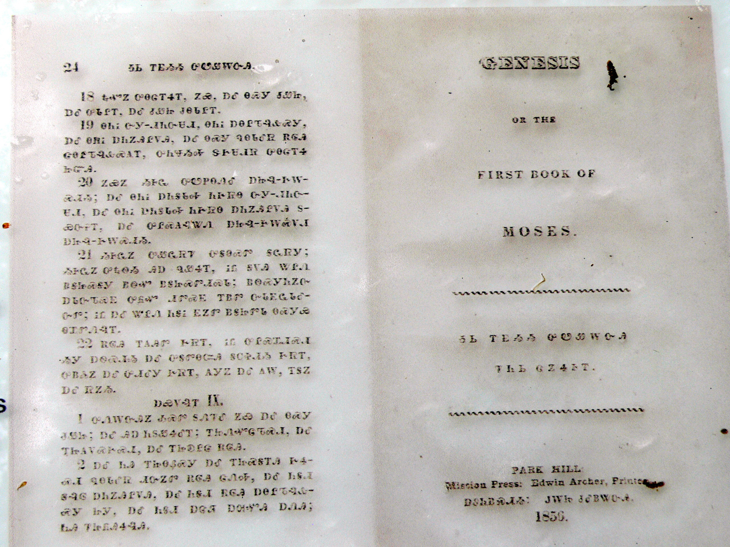 Cherokee Heritage Center ( Tahlequah / Oklahoma ). Adams Corner village: Village church - Cherokee translation of the Genesis ( 1856 )